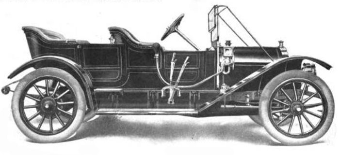 The image of a 1911 Midland Model L2 comes from an advertisement from 'Motor Age', Vol XVII no 9 page 106